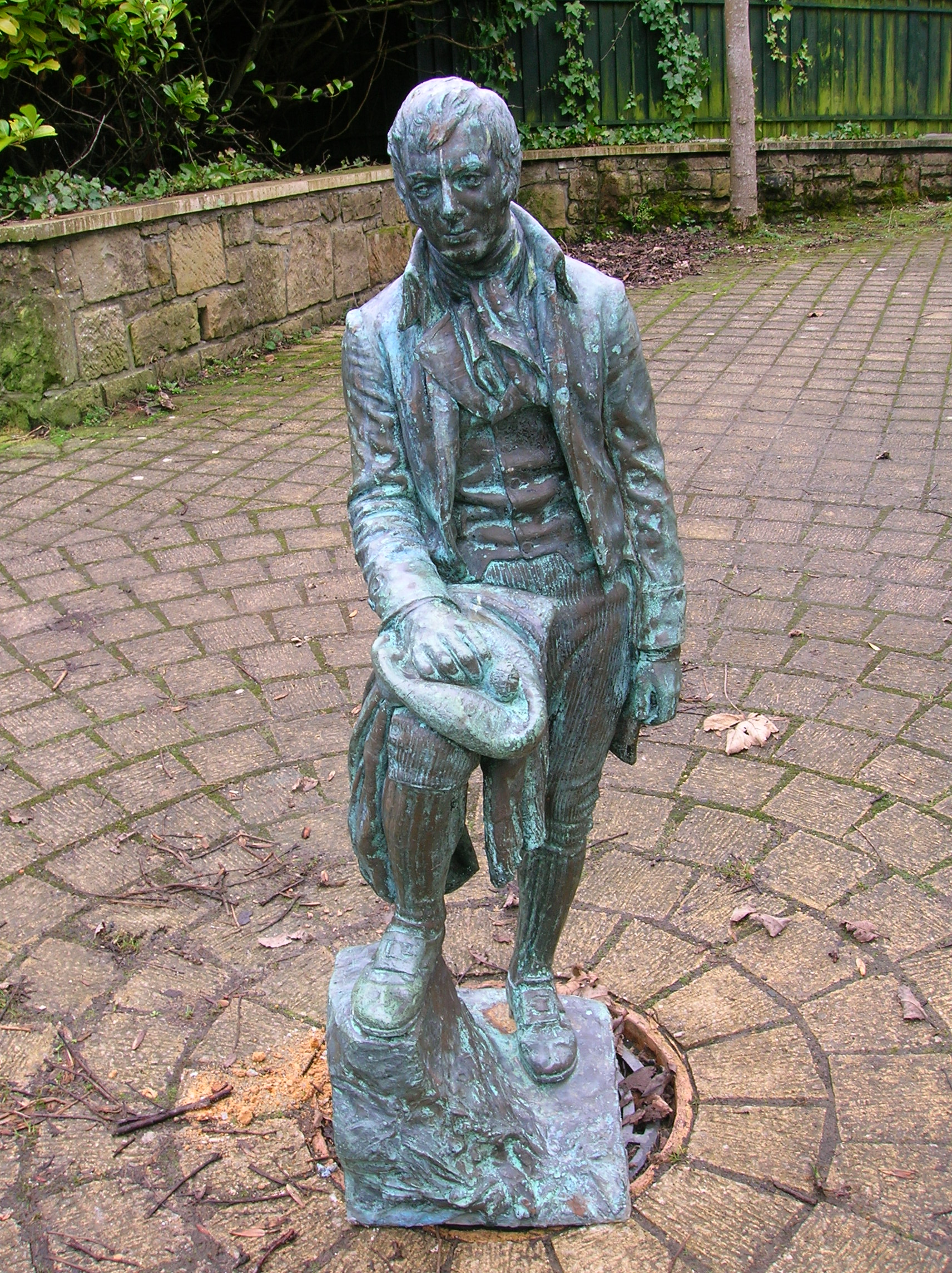 Statue of Robert Burns at Eglinton Country Park, Irvine, North Ayrshire, Scotland